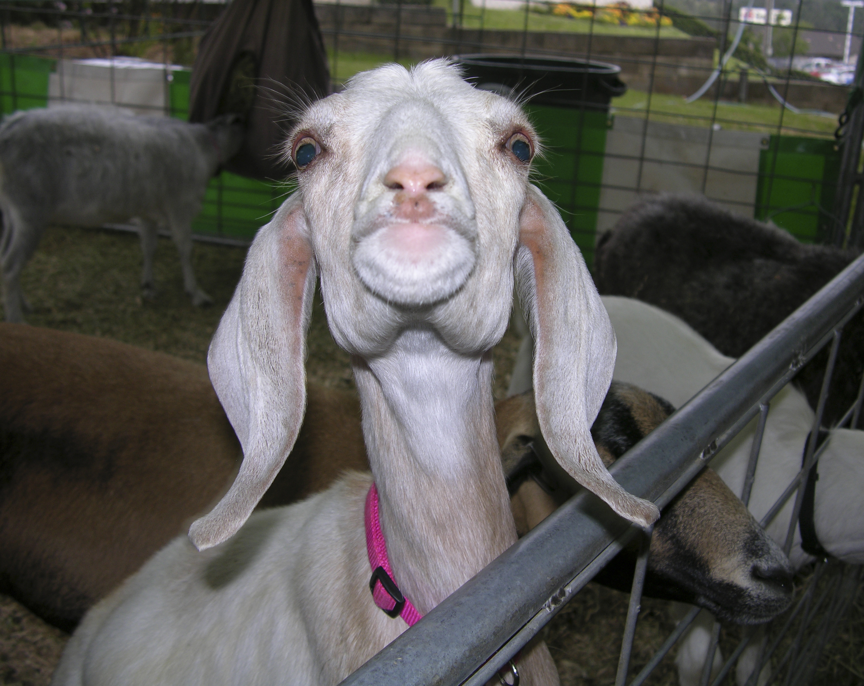 El Dorado County Fair 2006